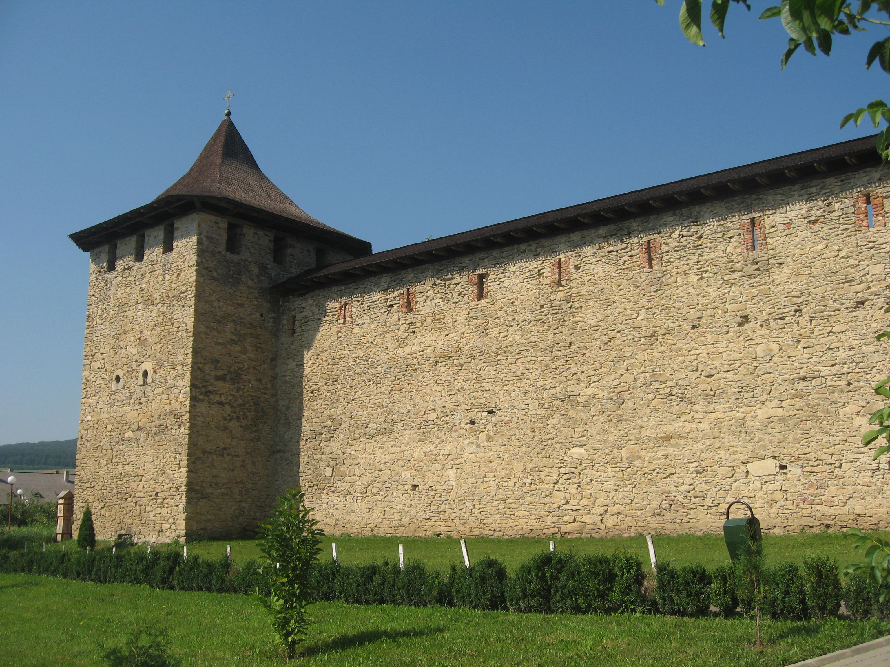 Probota Monastery 05